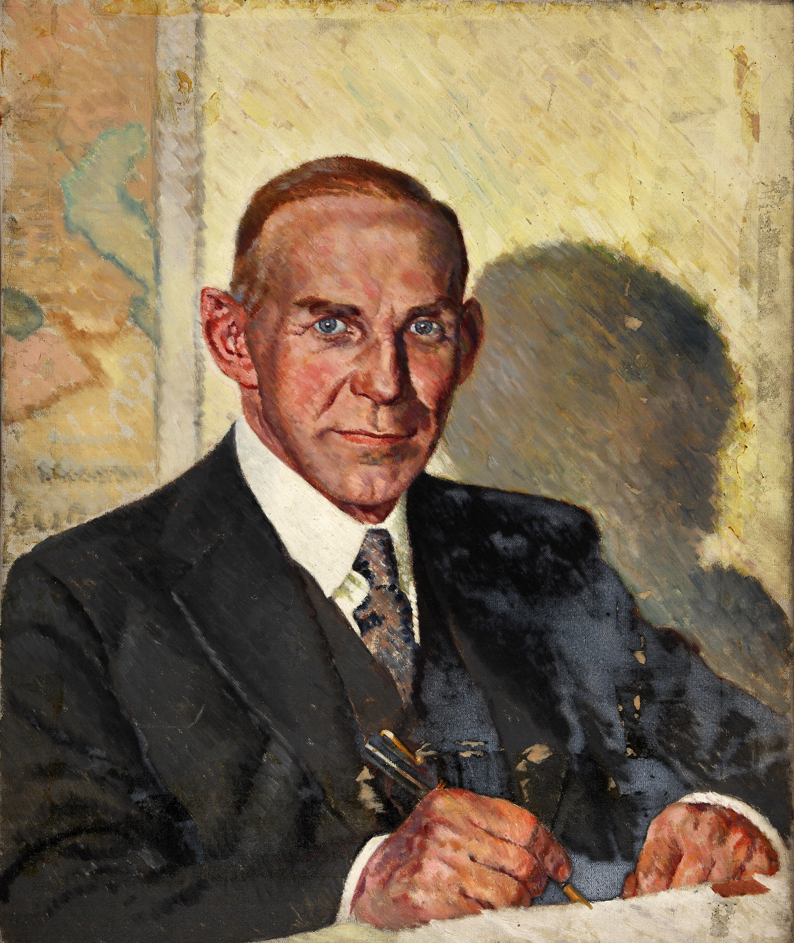 Earl of Selborne Depicted person: Roundell Palmer, 3rd Earl of Selborne